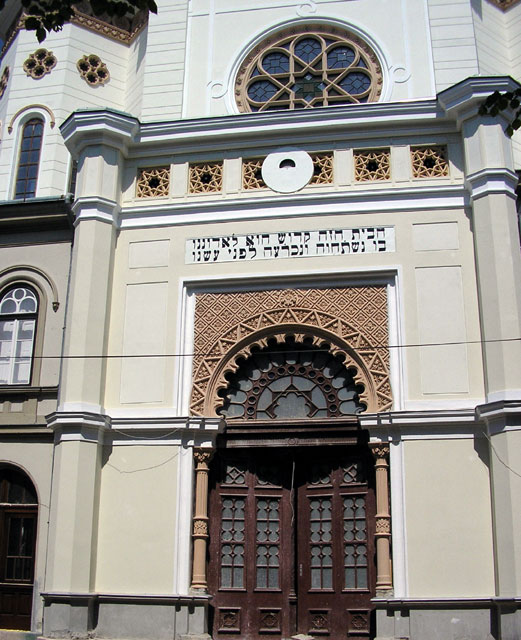 Synagogue, Győr, Western Hungary.